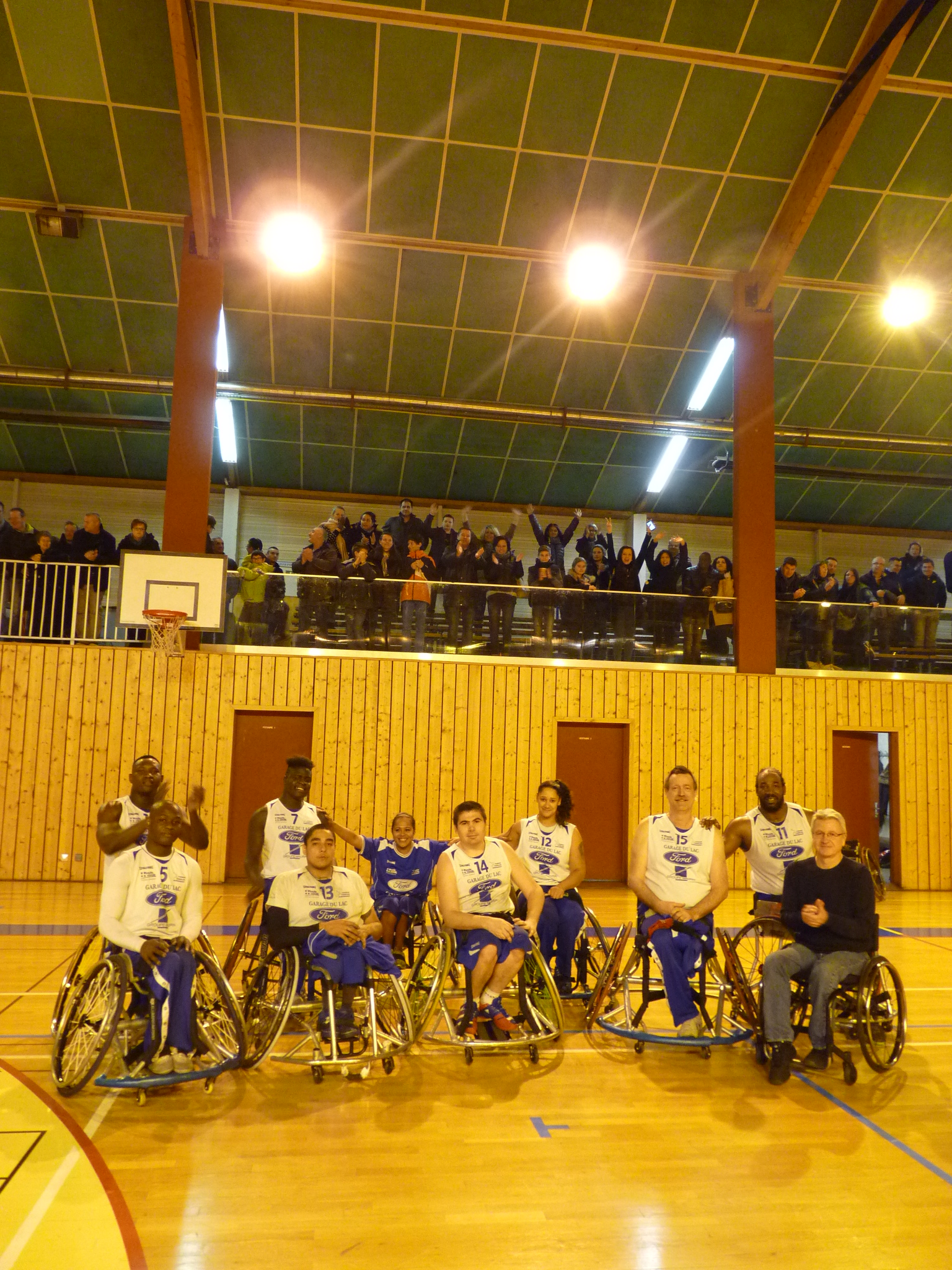 Thonon TCH wheelchair basketball team right after their victory against Clichy in the French 1A league championship on March 5 2016.